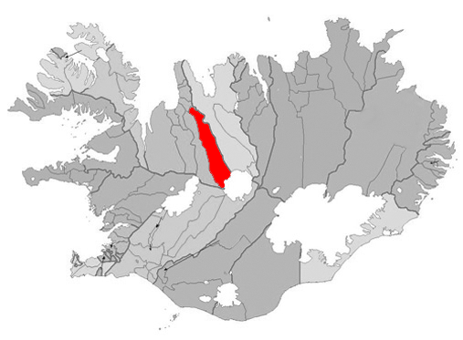 Based on Municipalities of Iceland.png.